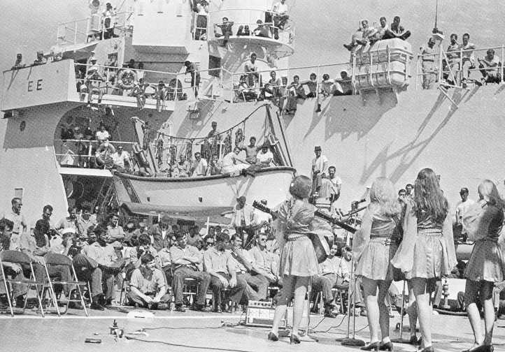 Original caption: FIRST USO SHOW: In Dec. 1970, we were invited to come alongside the LST TOM GREEN COUNTY to view a USO Christmas show, starring the Colorado Kappa Pickers from Colorado State University.